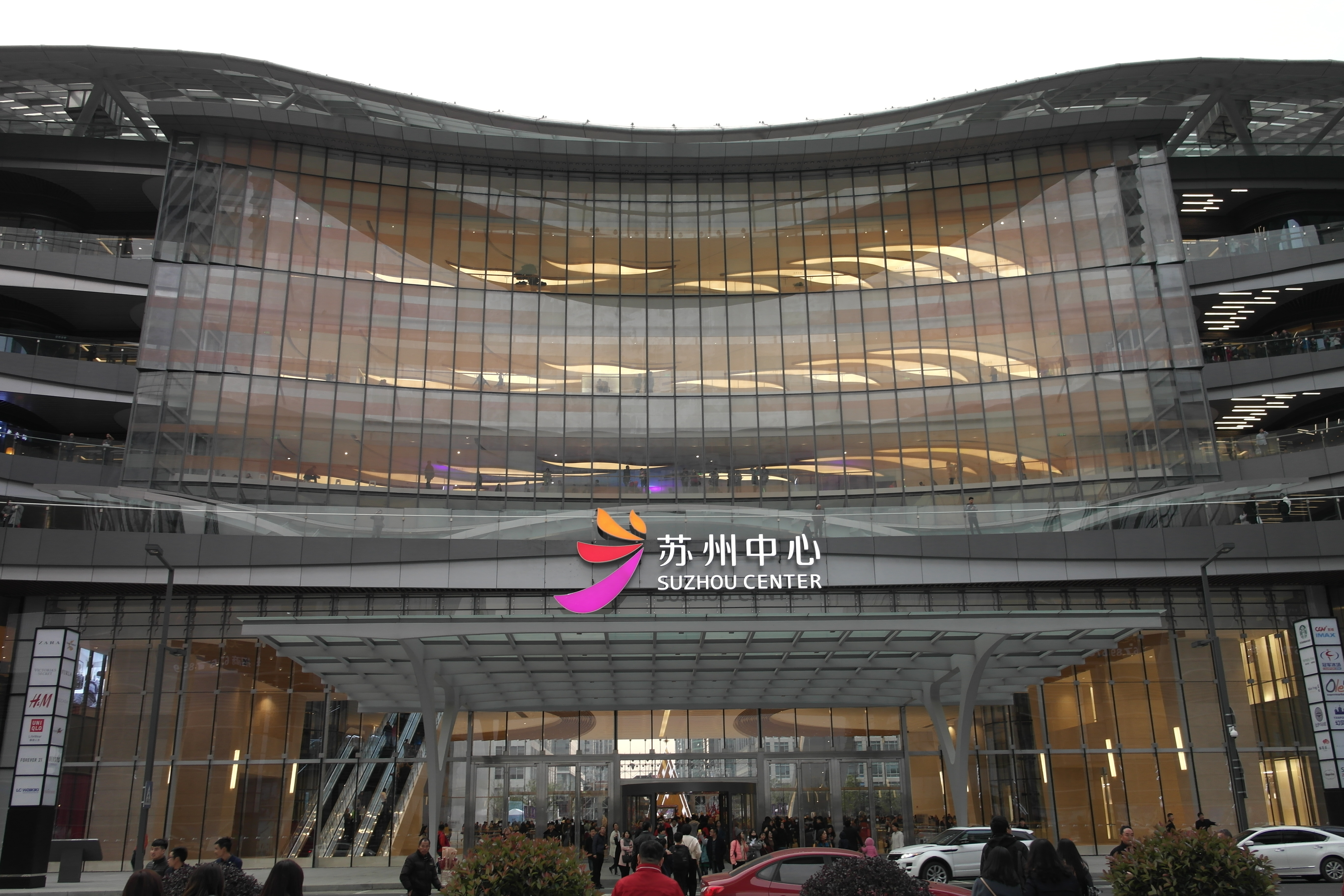 SuzhouCenter Door